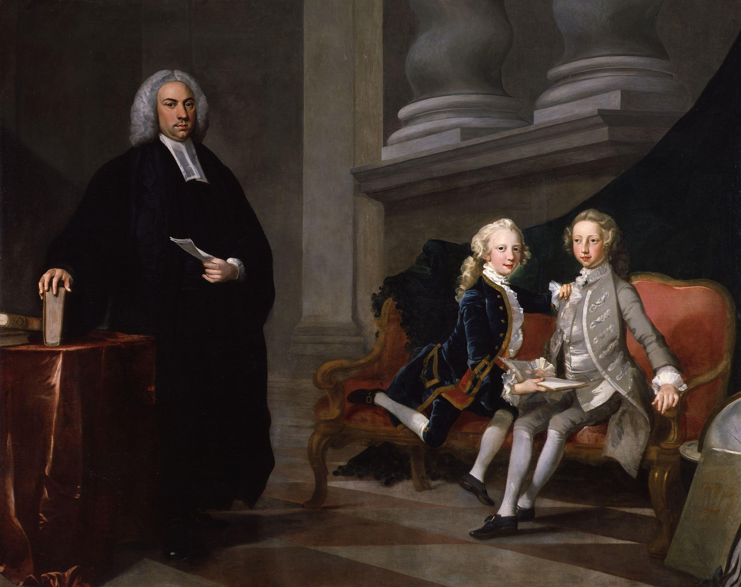 Francis Ayscough with the Prince of Wales (later King George III) and Edward, Duke of York and Albany, by Richard Wilson (died 1782), given to the National Portrait Gallery, London in 1900. All images in this batch have been confirmed as author died before 1939 according to the official death date listed by the NPG.